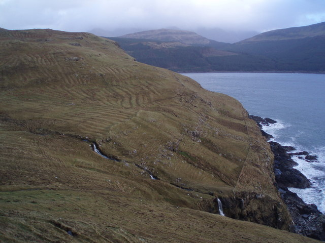 Runrigs Old runrigs - fertile strips of land, once cultivated - beside Loch Eynort, Isle of Skye.